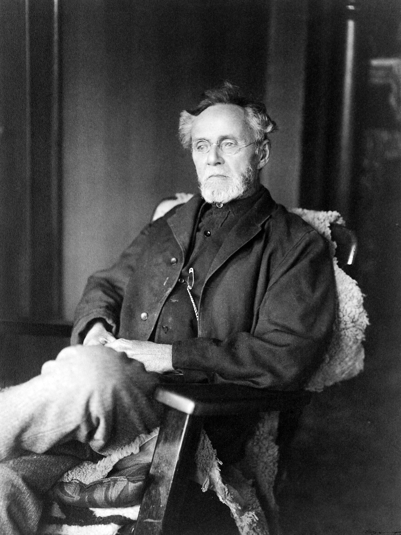 Andrew Taylor Still, noted as one of the founders Osteopathic medicine